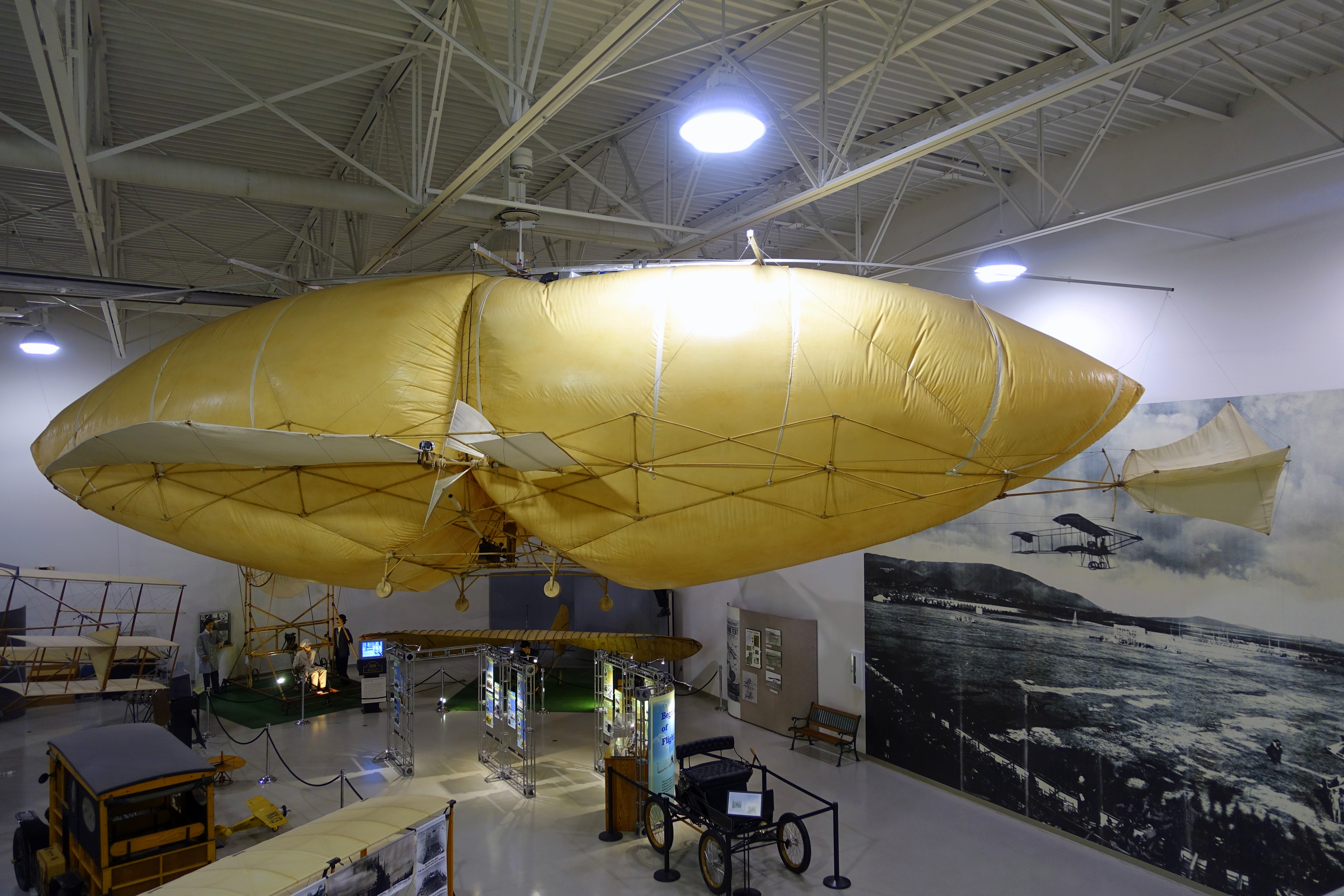 Exhibit in the Hiller Aviation Museum, San Carlos, California, USA.